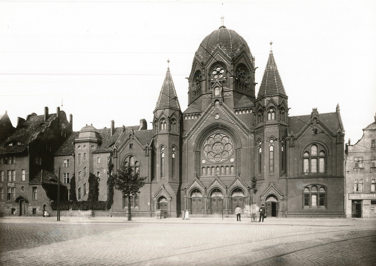 Königsberg Neue Synagoge - New synagogue of Königsberg, built in 1896 and destroyed by the nazis in 1938